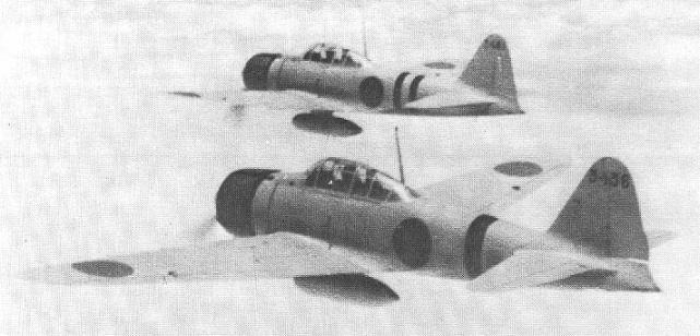 Two Mitsubishi A6M2a Zero of the Imperial Japanese Navy Aviation in China (26 May 1941).